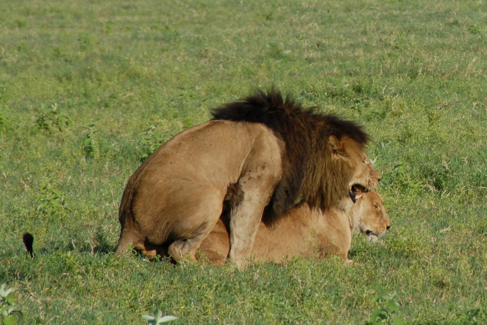 Lions mating at Ngorongoro Conservation Area, Tanzania.